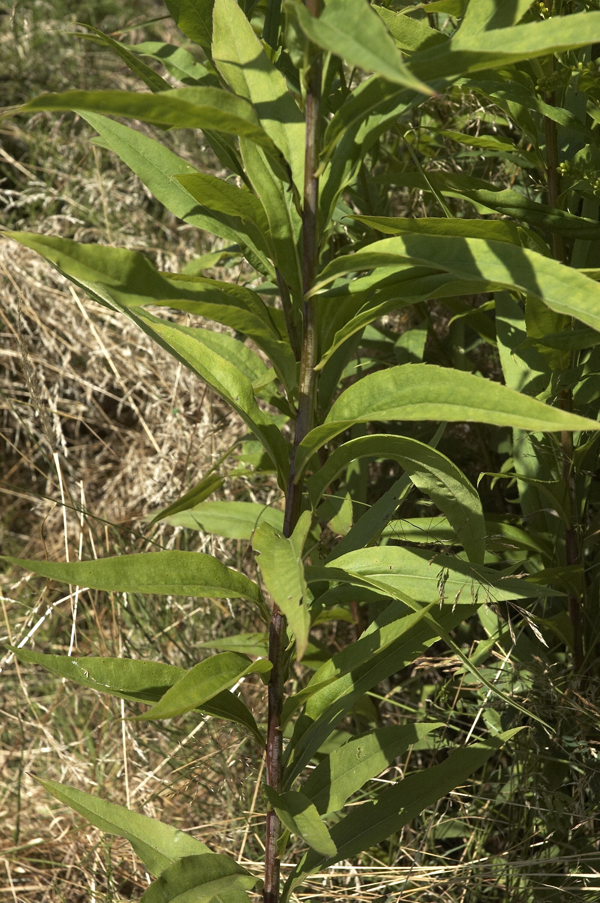 Solidago gigantea. This photo has been taken in Belgium. Other photos of the same plant